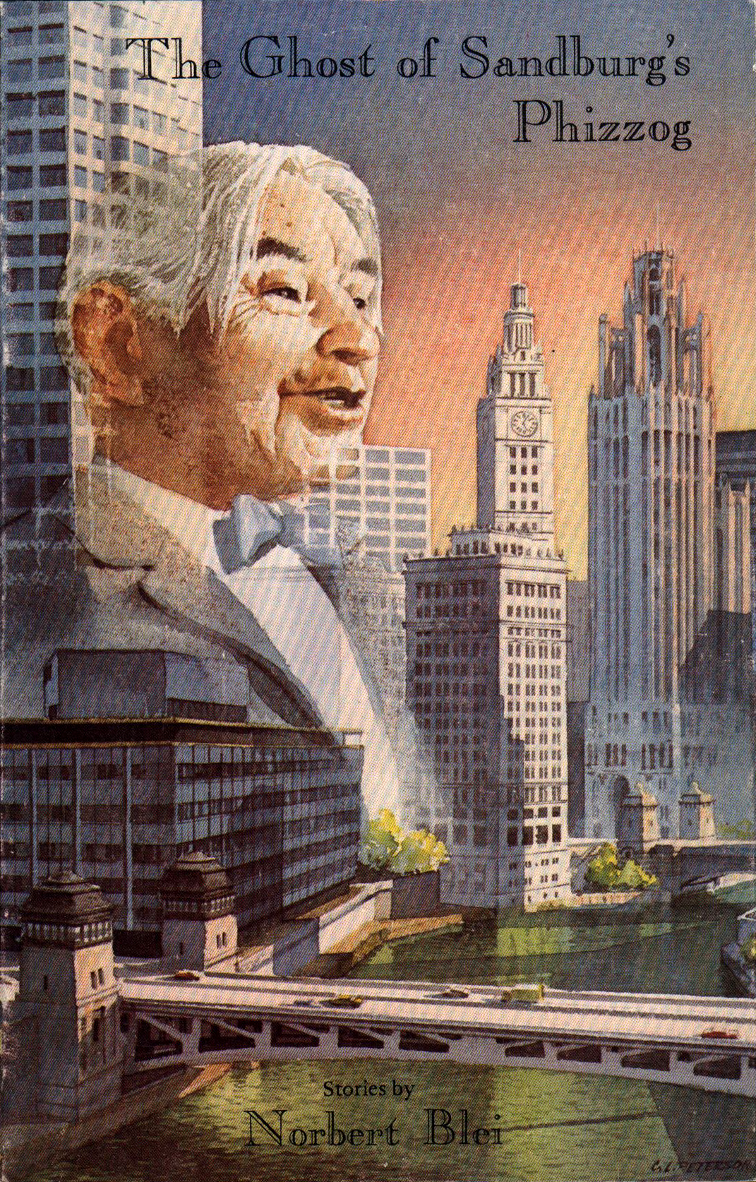 cover of The Ghost of Sandburg's Phizzog (1986) by Norbert Blei